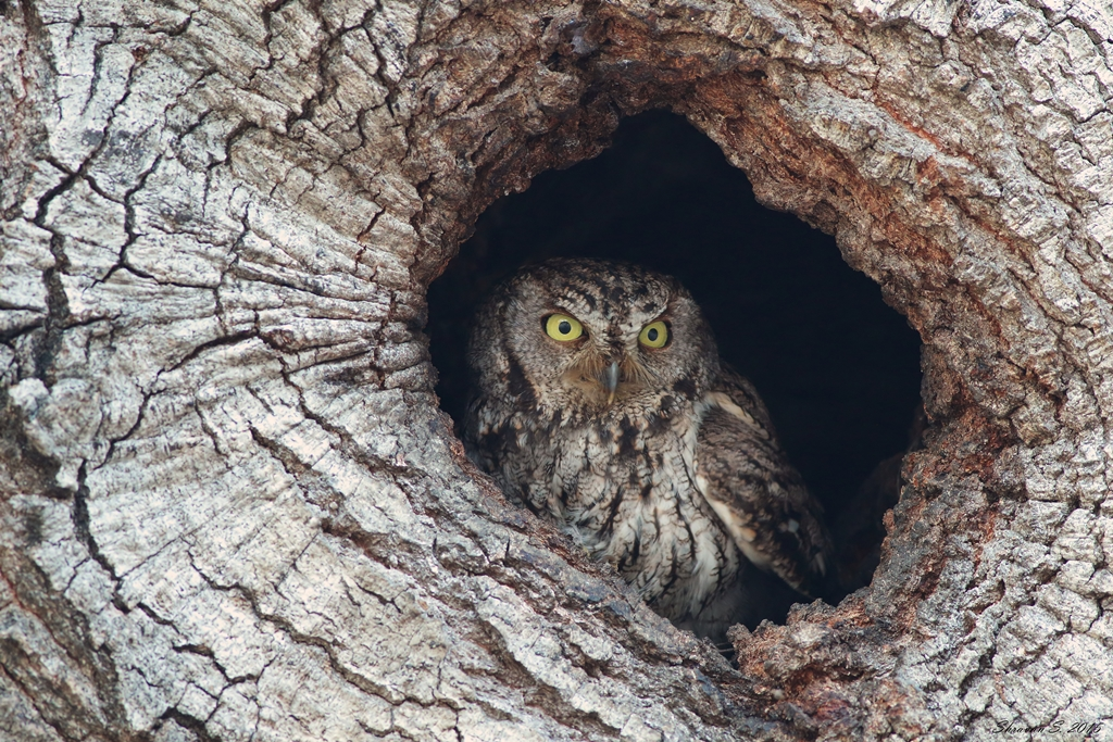 A Western Screech Owl Megascops kennicottii prepares to embark on a nightly hunt. Photo taken in Atherton, California.